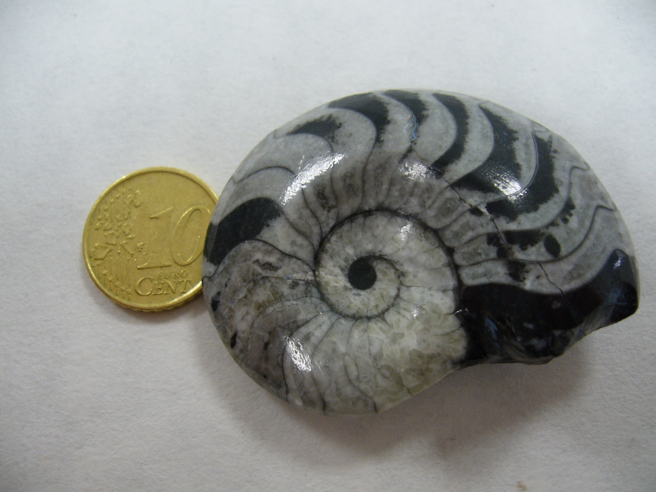 Goniatites sp. fossil (Middle Devonian) founded in Morocco, in a laboratory of practices of the Faculty of Sciences of the University of Corunna.